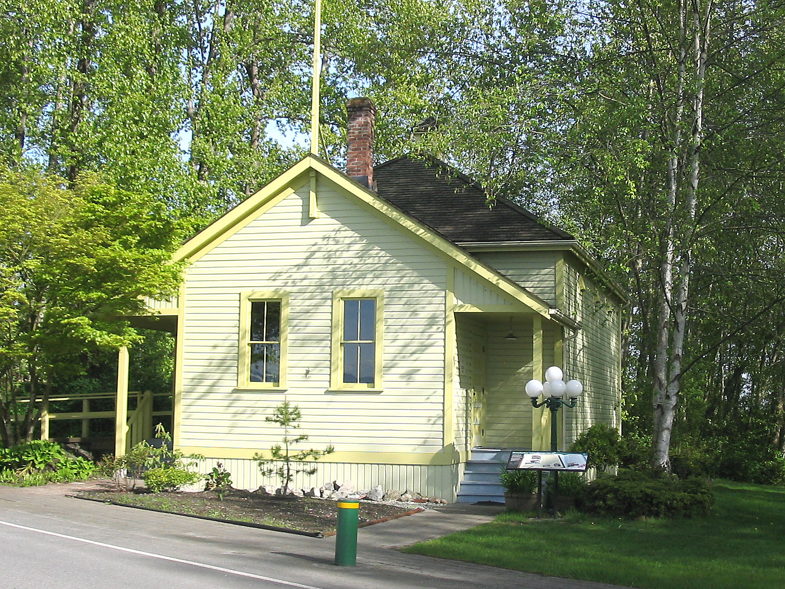 Inverholme Schoolhouse, 1909, in Deas Island Regional Park, Greater Vancouver Regional District